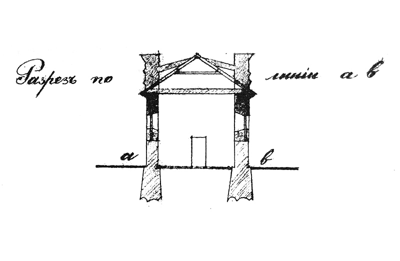 Brothers Hospitallers of St. John of God church